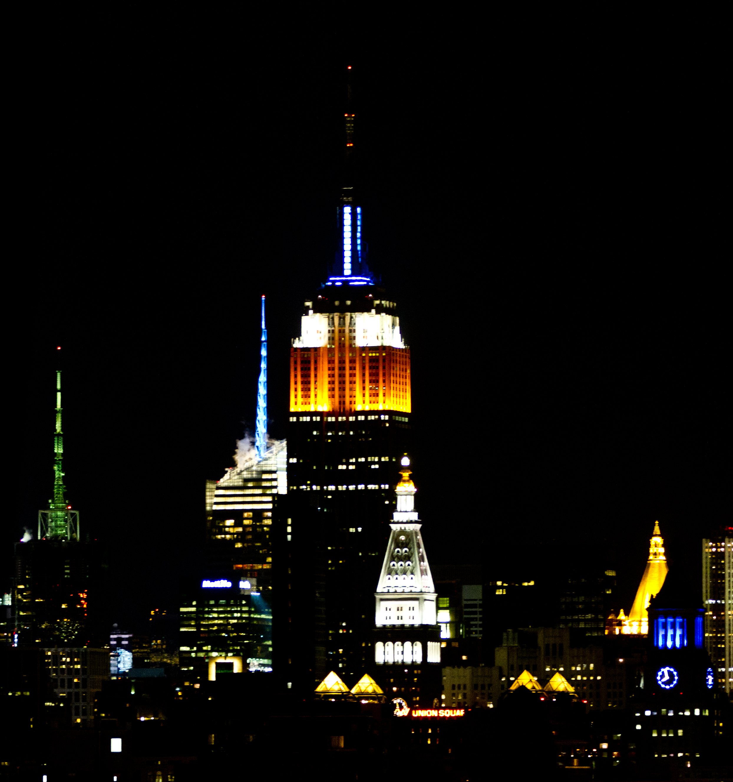 NYC at night.